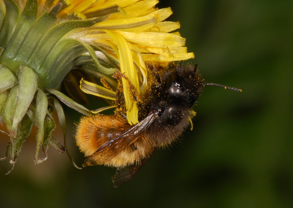 Osmia cornuta, Nied, Frankfurt/Main, Germany